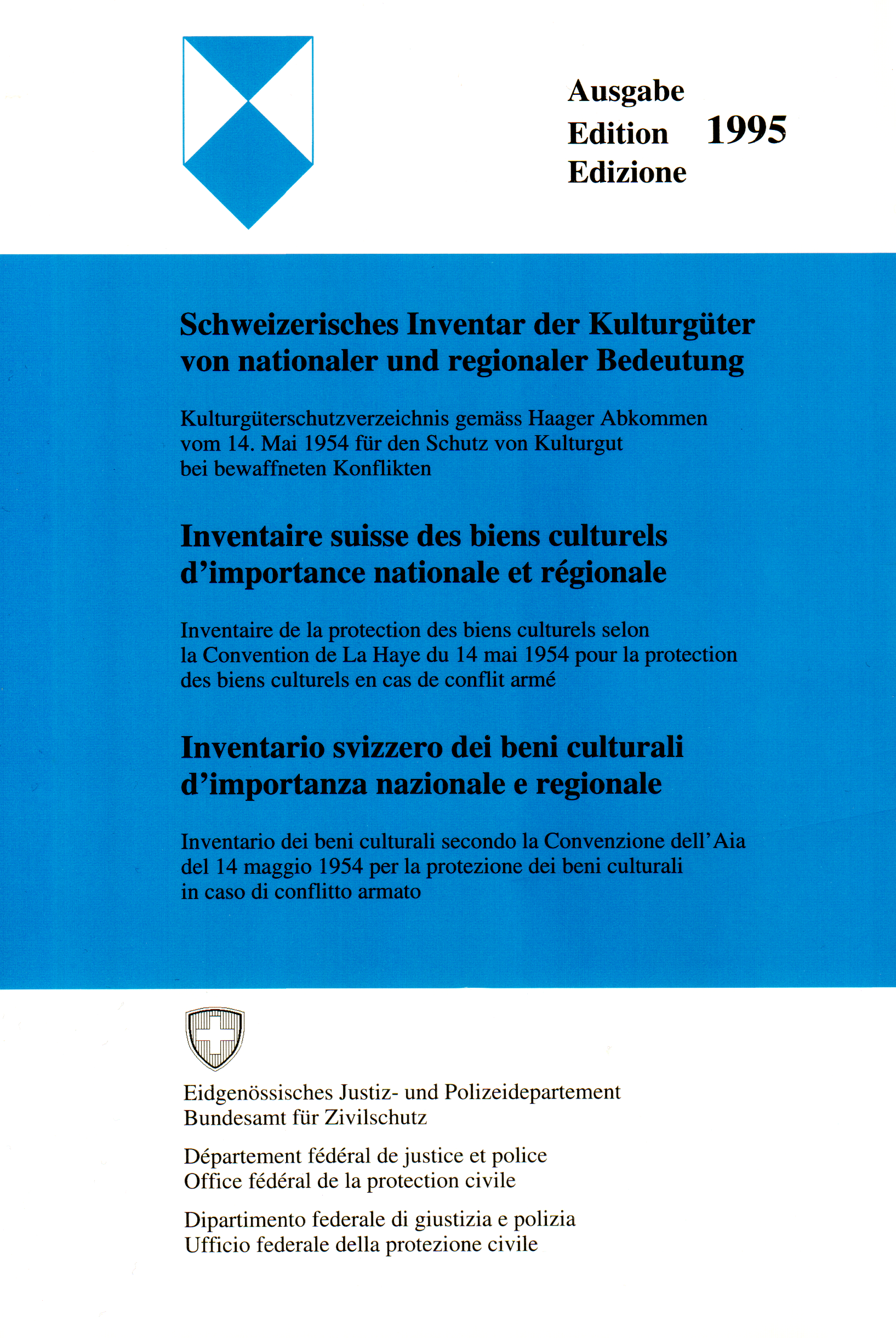 Swiss inventory of cultural property of national and regional significance.